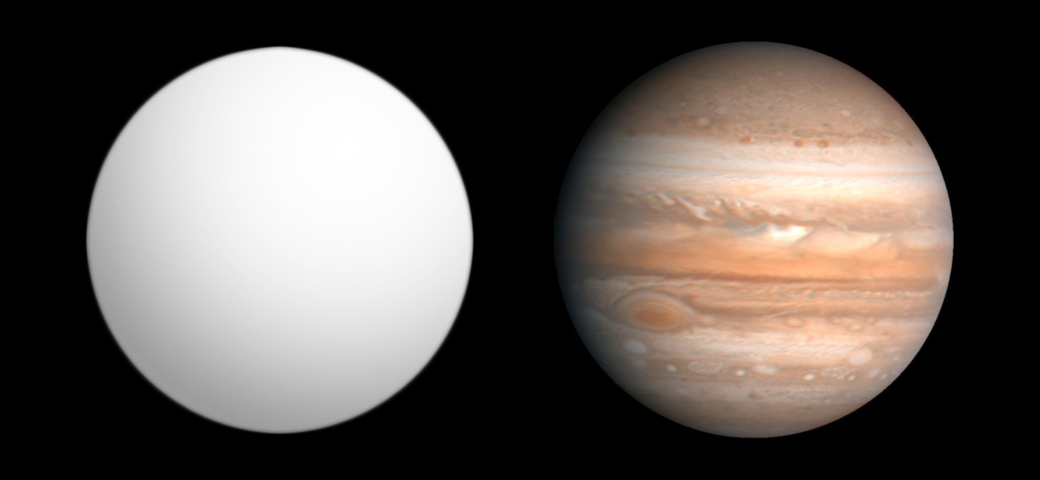 Comparison of best-fit size of the exoplanet XO-2 b with the Solar System planet Jupiter, as reported in the Extrasolar Planets Encyclopaedia[1] as of 2010-10-03. ↑ Extrasolar Planets Encyclopaedia (2010-09-30). Retrieved on 2010-10-03.